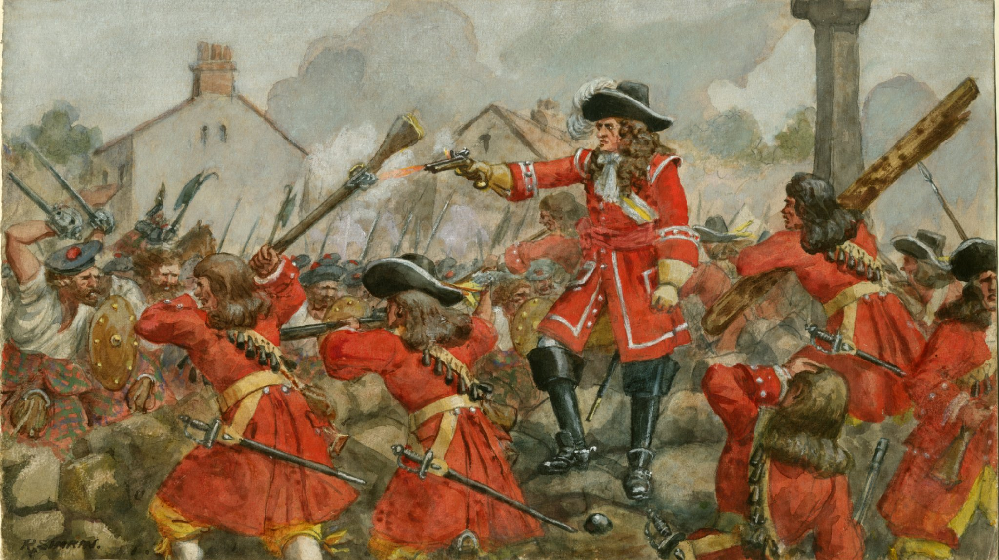 The Earl of Angus's Regiment (The Cameronians) at the Defence of Dunkeld, 1689.